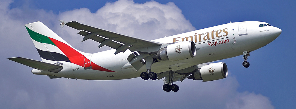 Emirates SkyCargo Airbus A310F A6-EFC at Zürich Airport